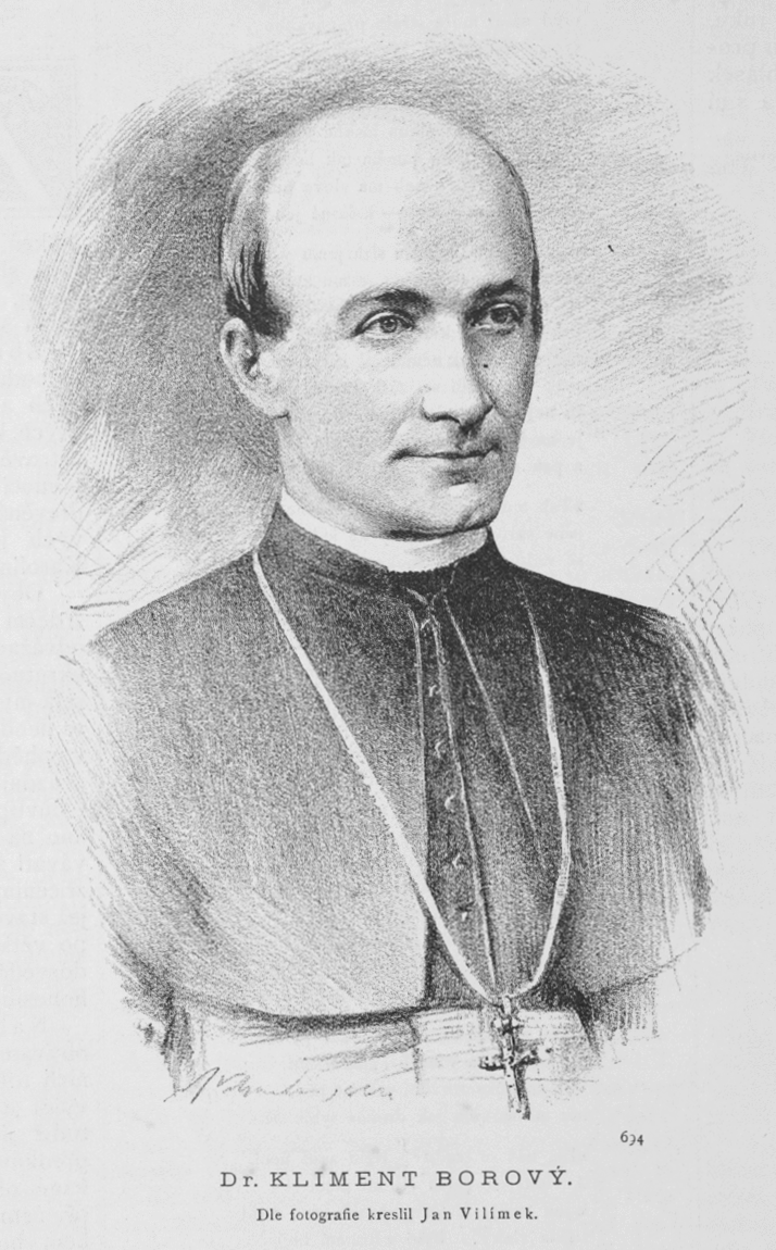 Portrait of Klement Borový (1838-1897), Czech Catholic priest, professor of theology, writer and editor.